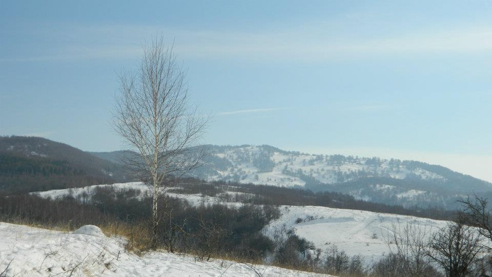 Măgura Priei scenary in winter (Sălaj County, Romania)